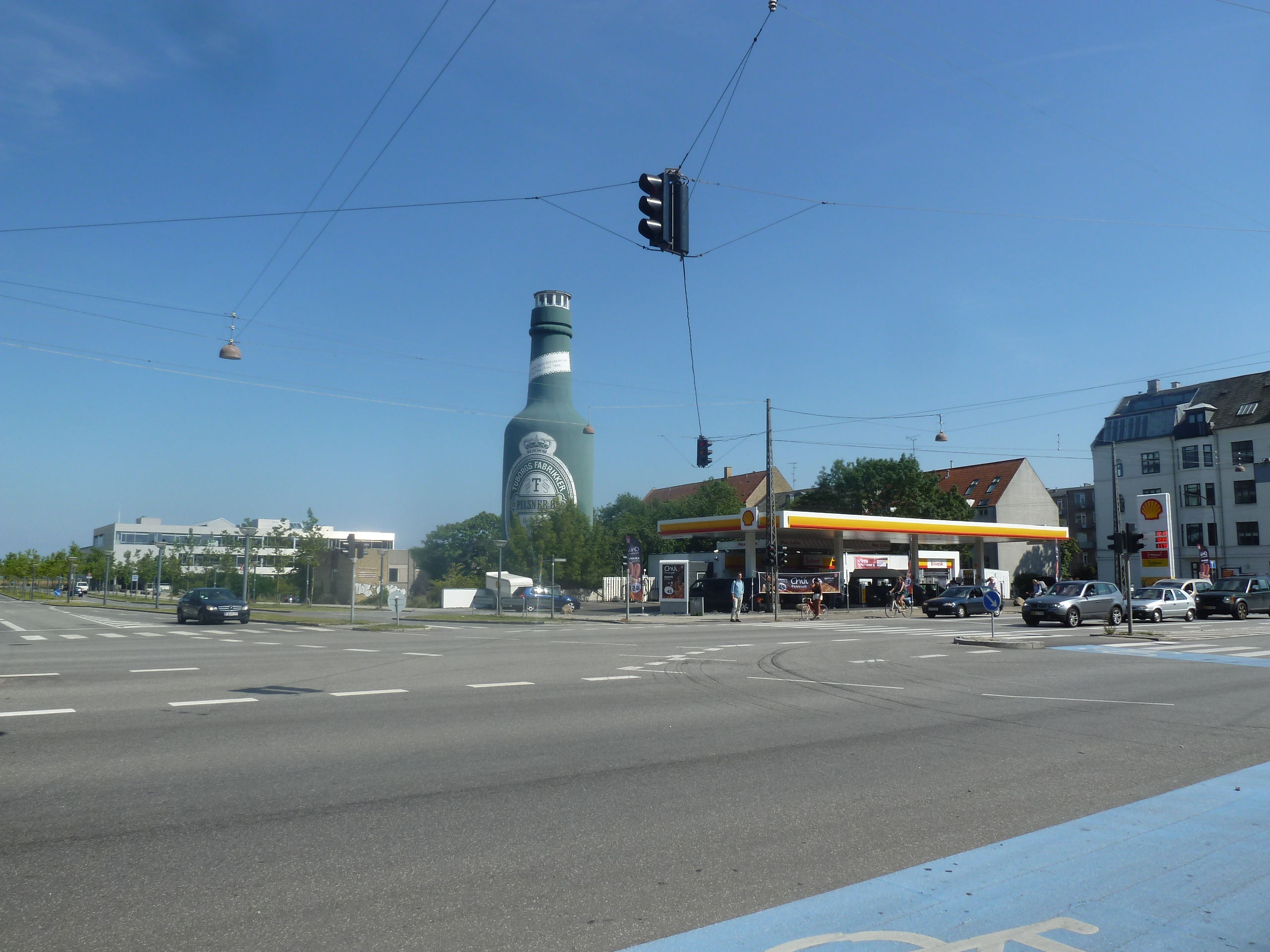 The old tower Tuborgflasken (the Tuborg Bottle) in Hellerup in Copenhagen. It was originally build as an observation tower by the brewery Tuborg for Nordic Exhibition at Tivoli in 1888. Afterwards it was moved to the brewery area in Hellerup. It has been closed for the public since a long time ago.